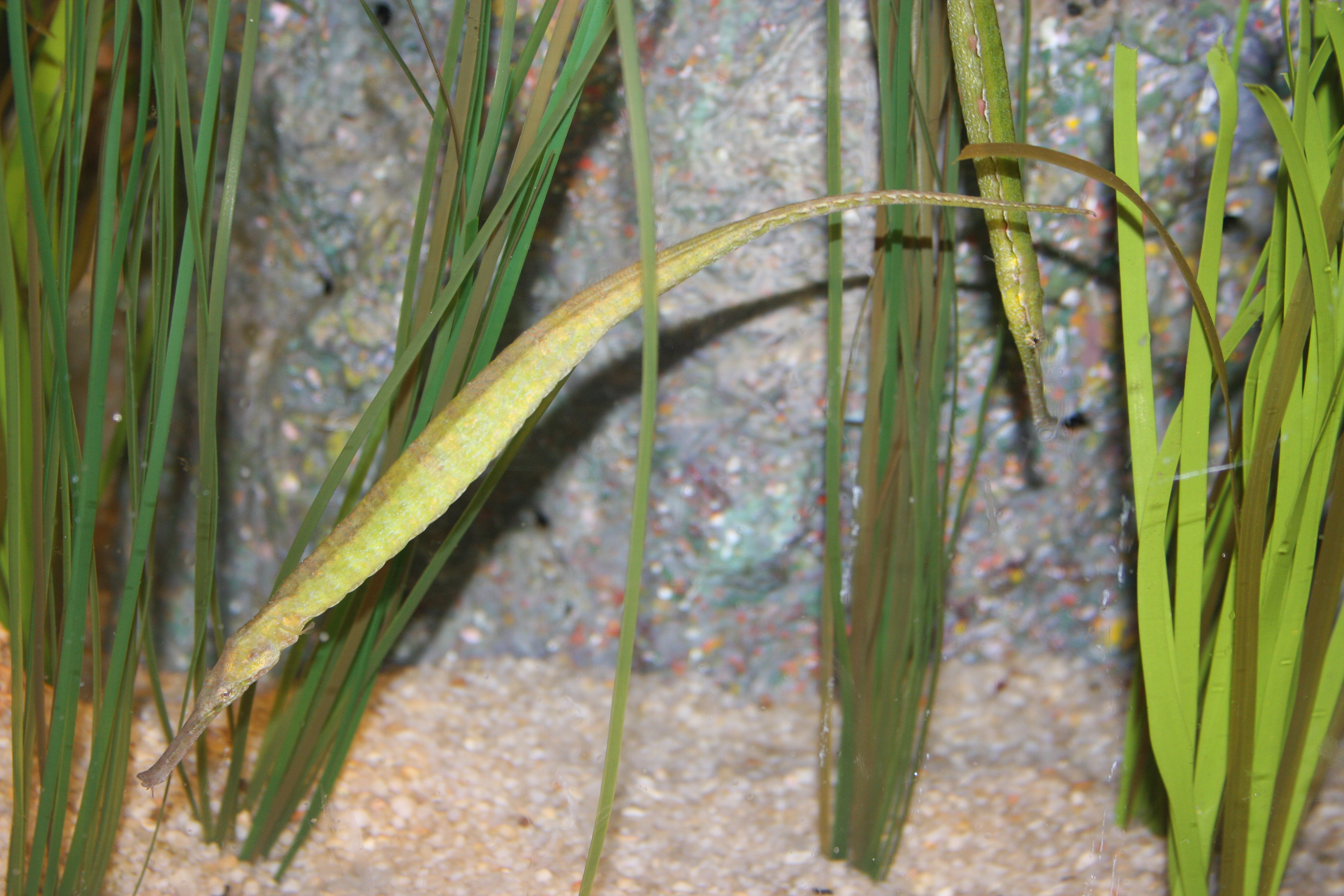 Syngnathoides biaculeatus in Siam Centre, Bangkok